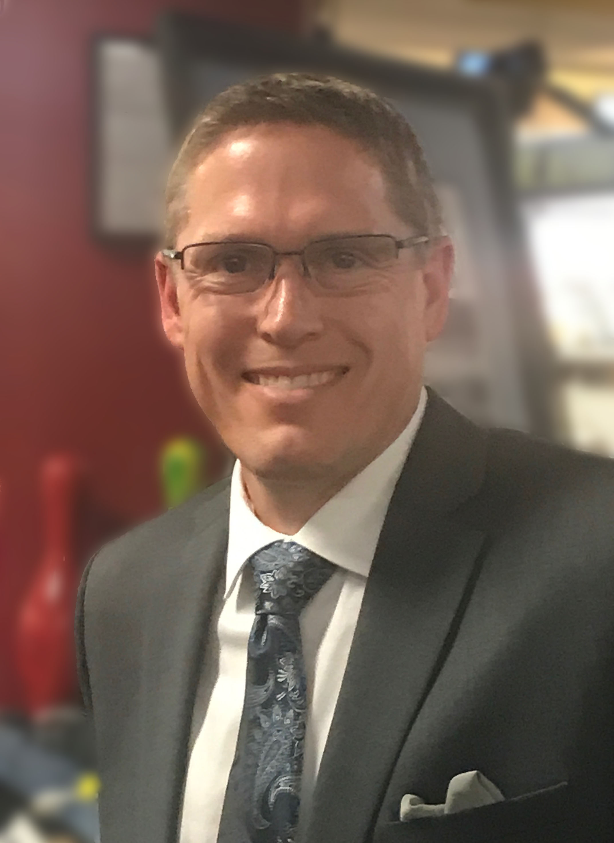 Photograph of American ten-pin bowler and sports commentator Chris Barnes (bowler) at a bowling tournament on August 18, 2019, after his role as a commentator. Distracting background was digitally blurred.